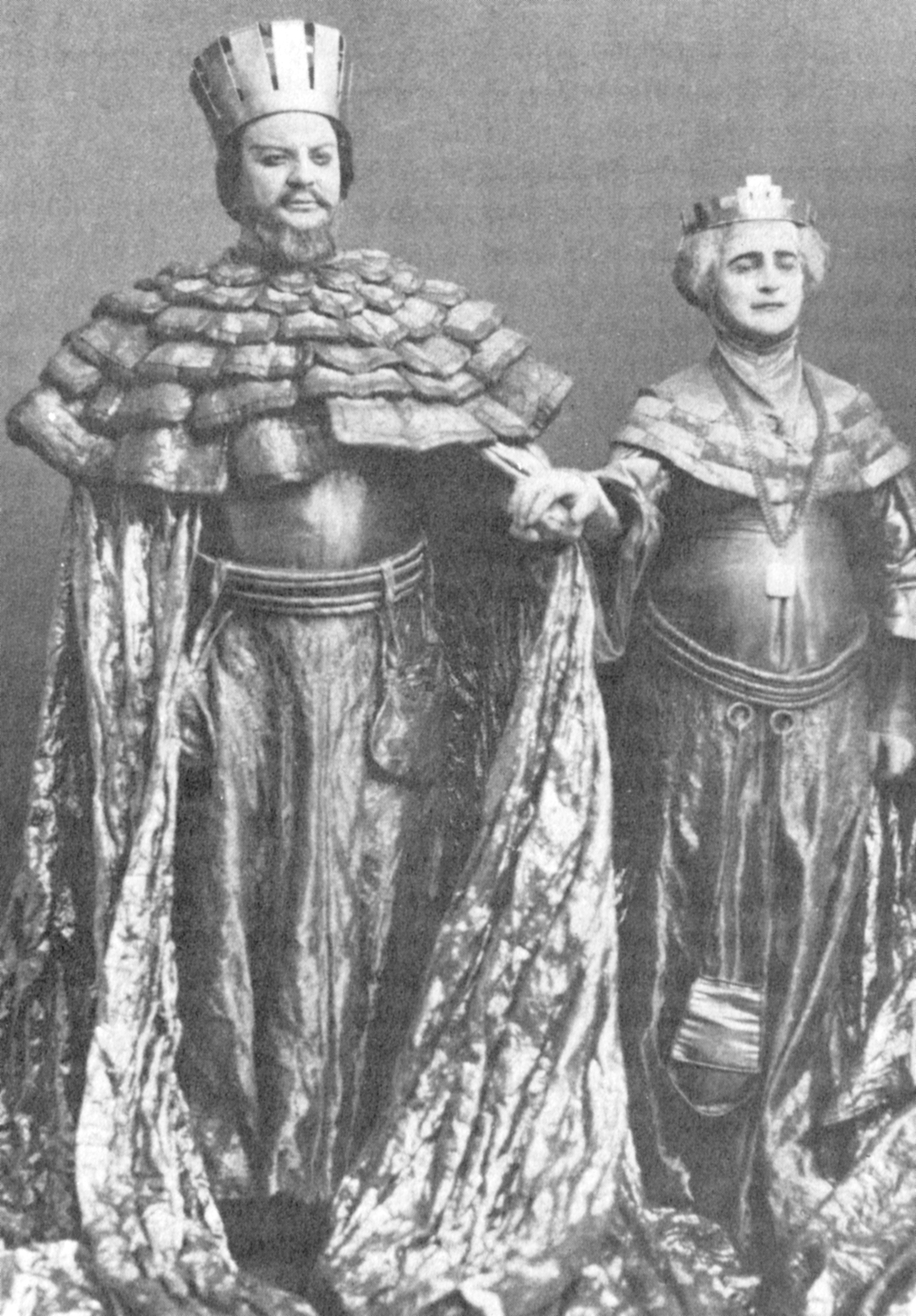 Russian actors Nikolai Osipovich Massalitinov and Olga Knipper (wife of Anton Pavlovich Chekhov) as Claudius and Gertrude in Edward Gordon Craig and Constantin Stanislavski's production of Hamlet (1911)